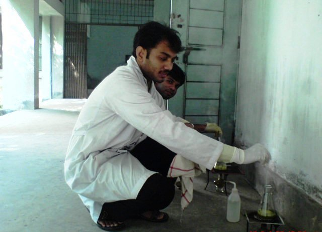 chemist working in laboratory.